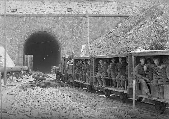 Work train at the Hægebostad Tunnel of the Sørlandet Line, Hægebostad, Norway.